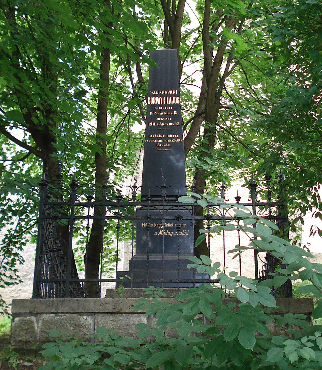 Grave of Lajos Horváth, Cemetery of Avas, Miskolc, Hungary